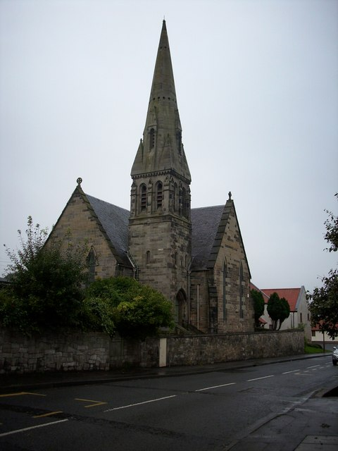 The Thomas Chalmers Centre, Kirkliston. The centre, an old kirk, is attached to Kirkliston Parish Church.